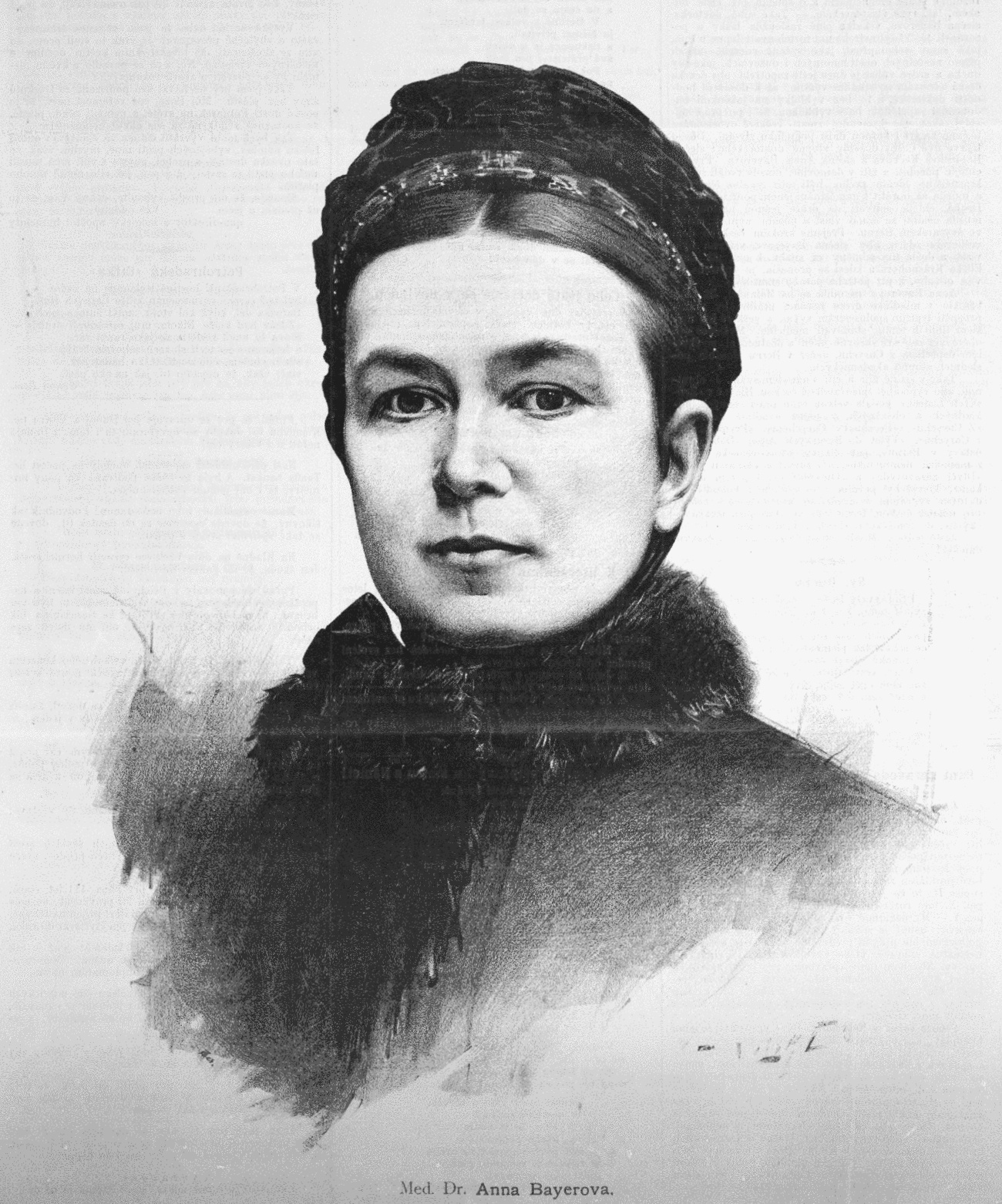 Anna Bayerová (1853 - 1924), Czech physician